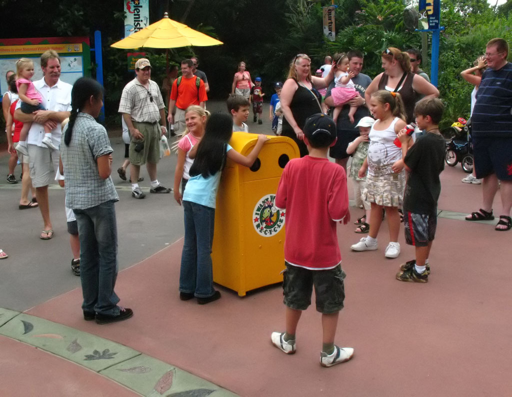 Pipa at Disney's Animal Kingdom interacting with guests. Taken June 2006